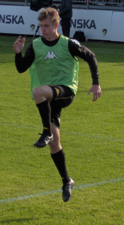 Rasmus Schüller warming up during a match between FC Honka and HJK Helsinki.